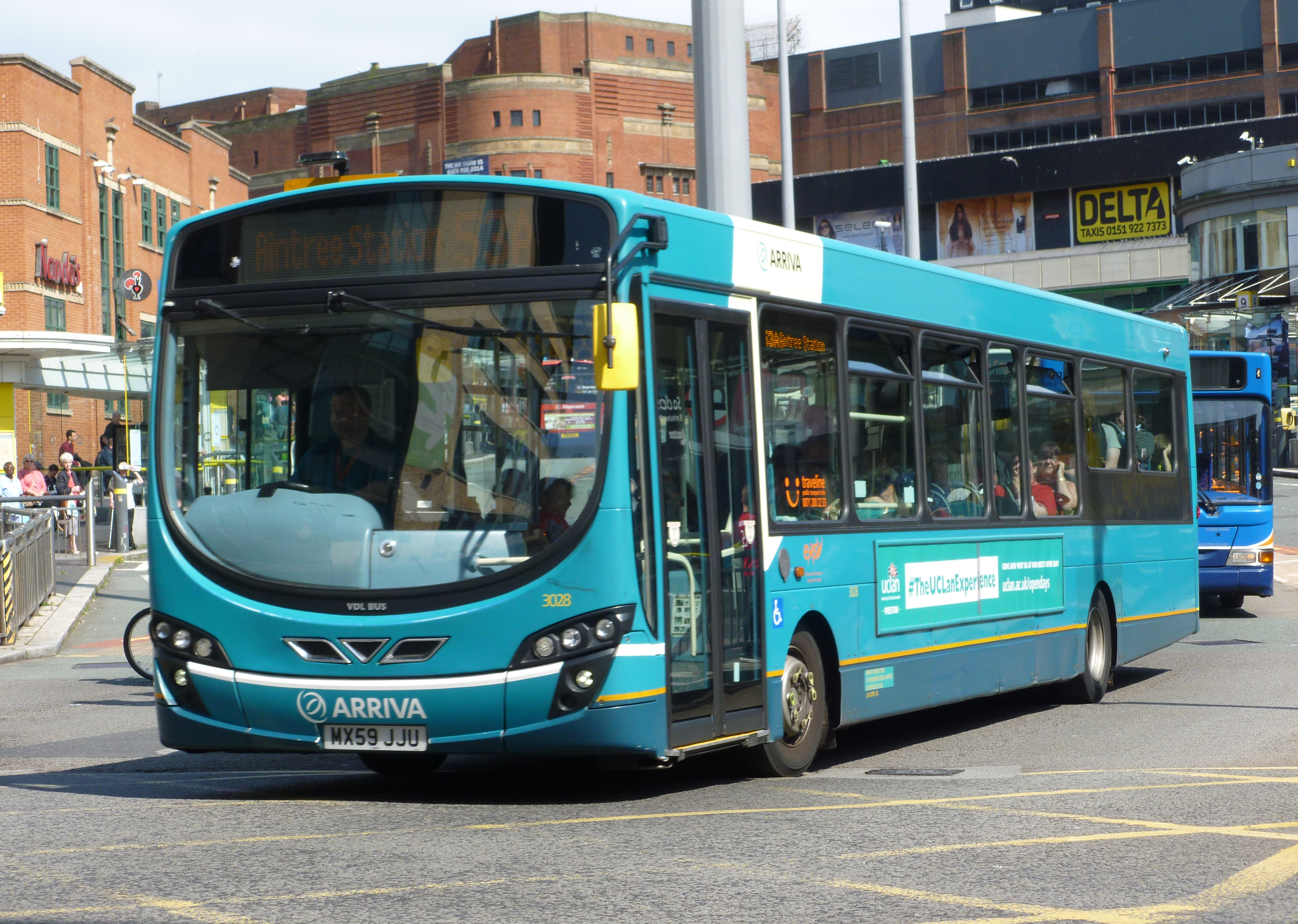 Arriva North West bus 3028, MX59 JJU, a VDL SB200 with Wright Pulsar 2 bodywork, leaving Queen Square Bus Station, Liverpool on route 53A